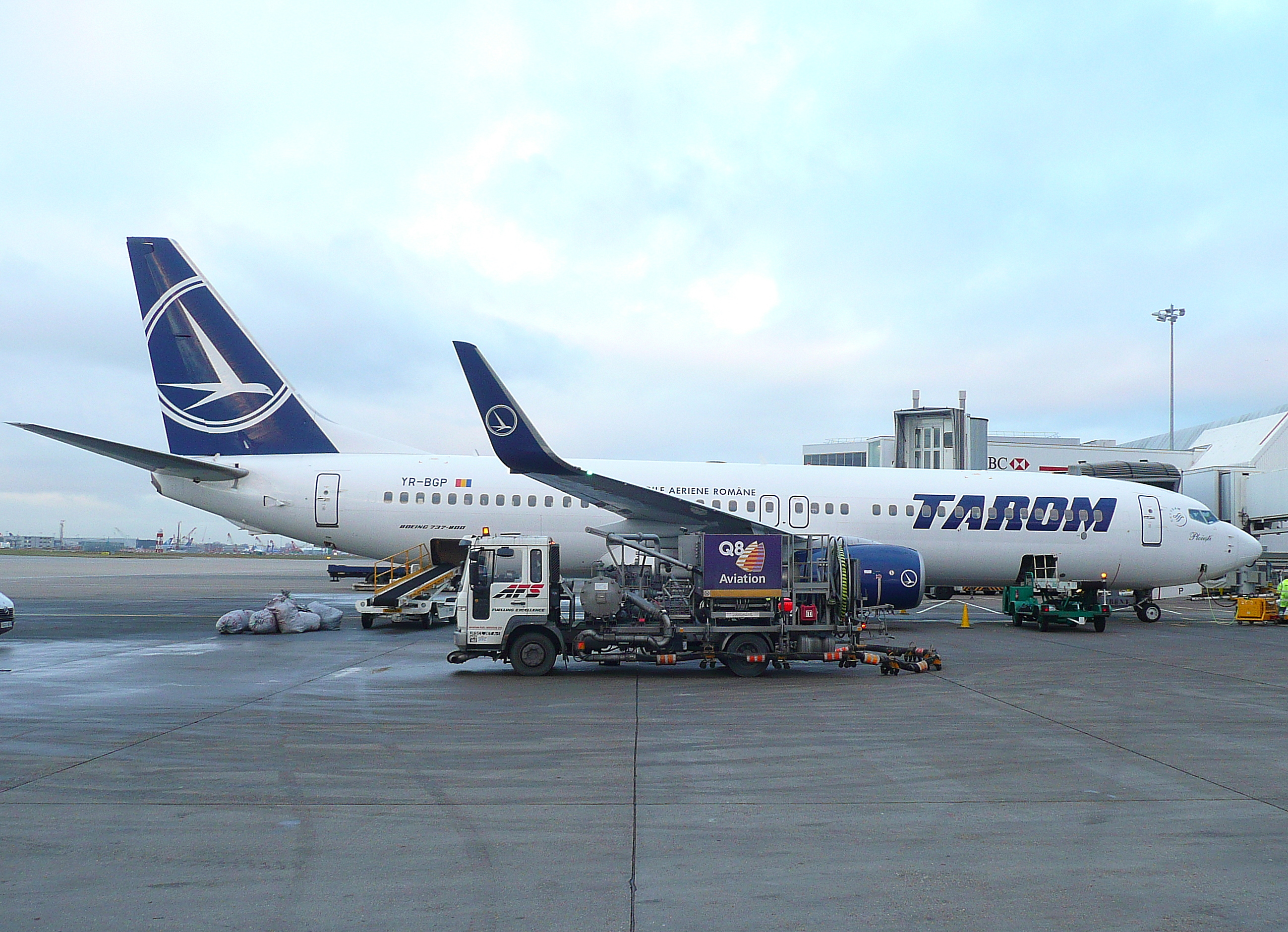 YR-BGP B738 Tarom on std 405.